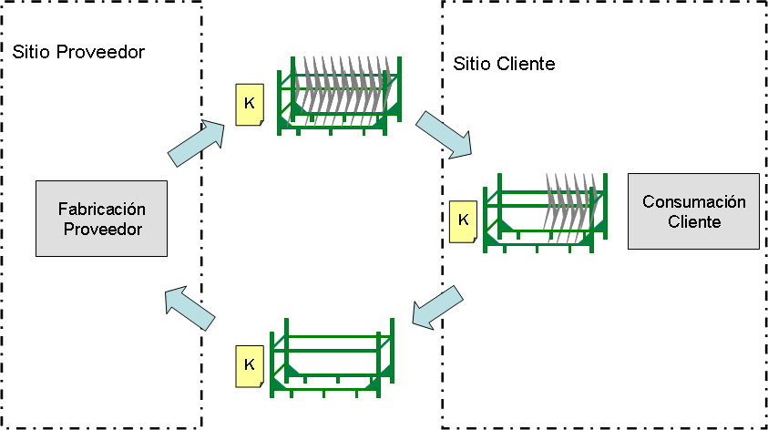 This a simple description of a Kanban utilization.